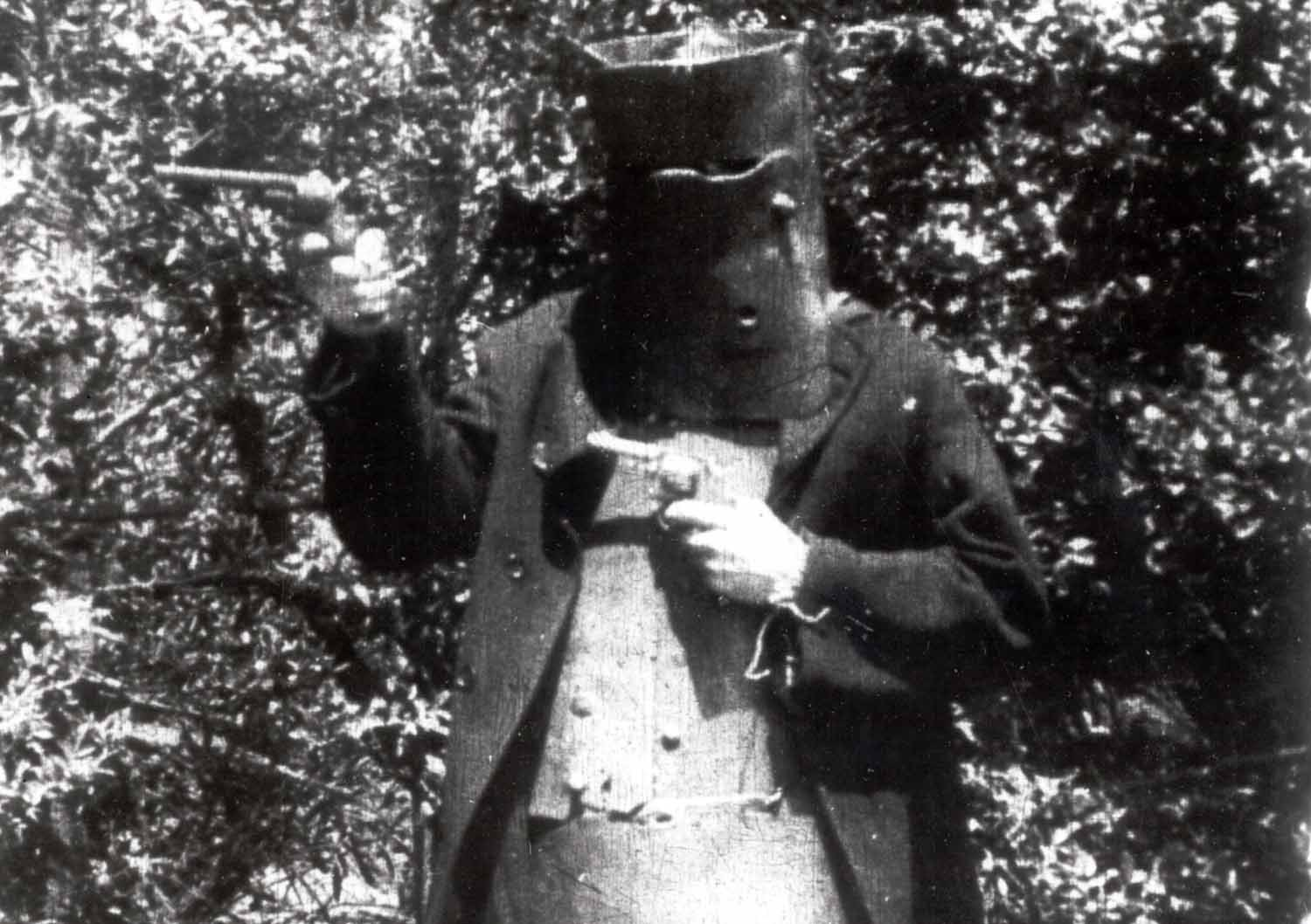 Screenshot from The Story of the Kelly Gang (1906)